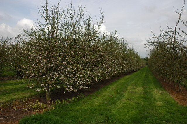 Apple orchard near Cowleigh The Worcestershire Way passes through these apple orchards near Cowleigh.